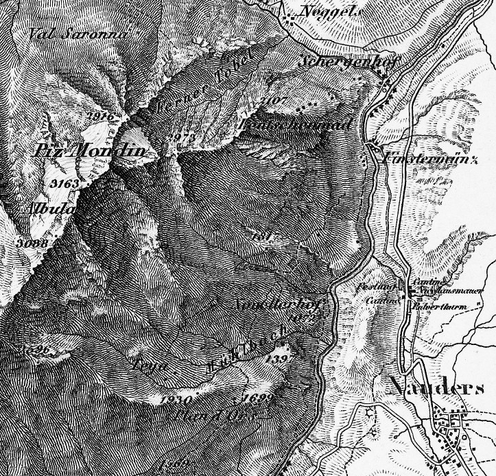 Finstermuenz: Border situation 1864, according Dufour map